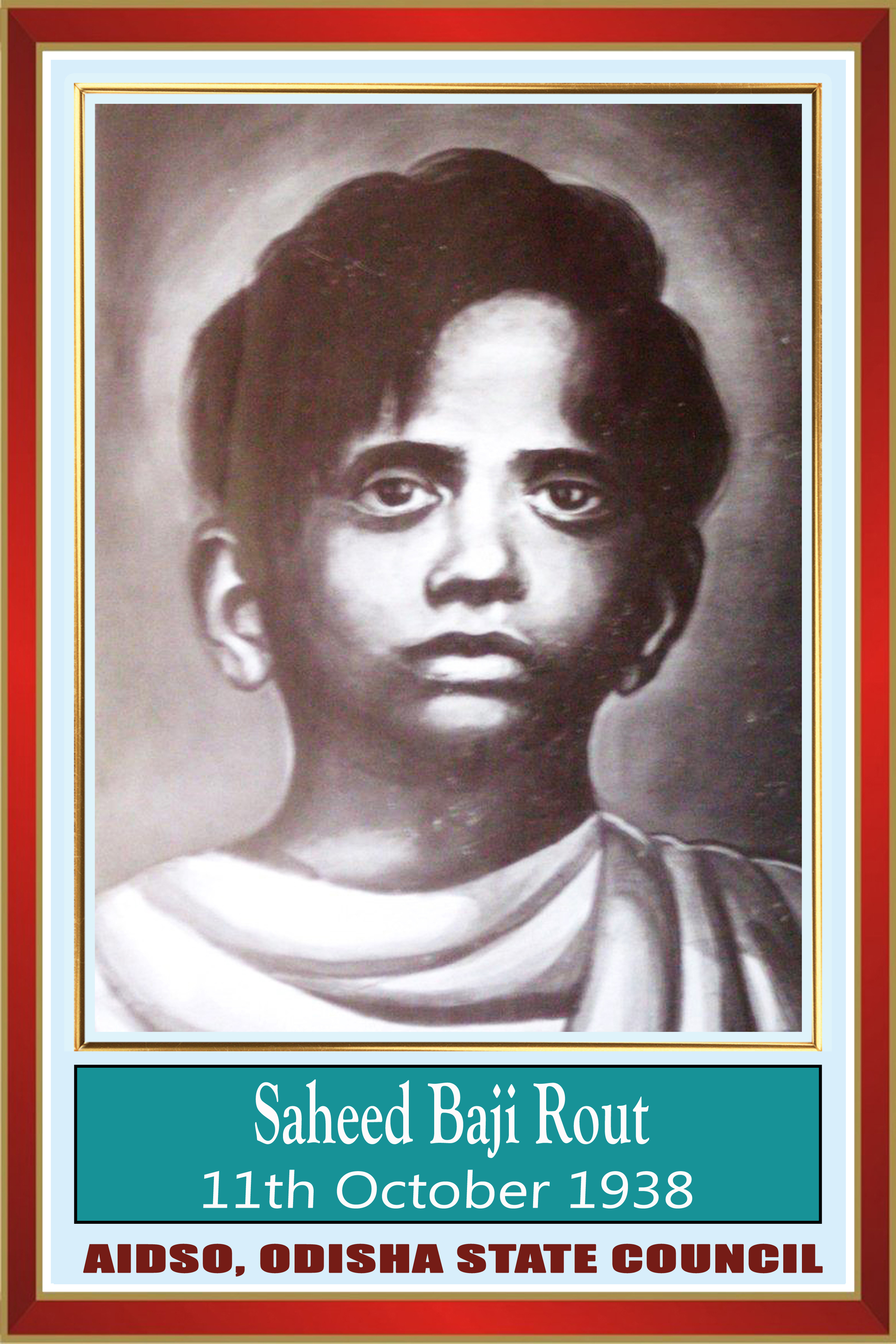 This potrait of Saheed Baji Rout created by AIDSO, Odisha unit in year 2002. Now this photo is very famous in odisha.